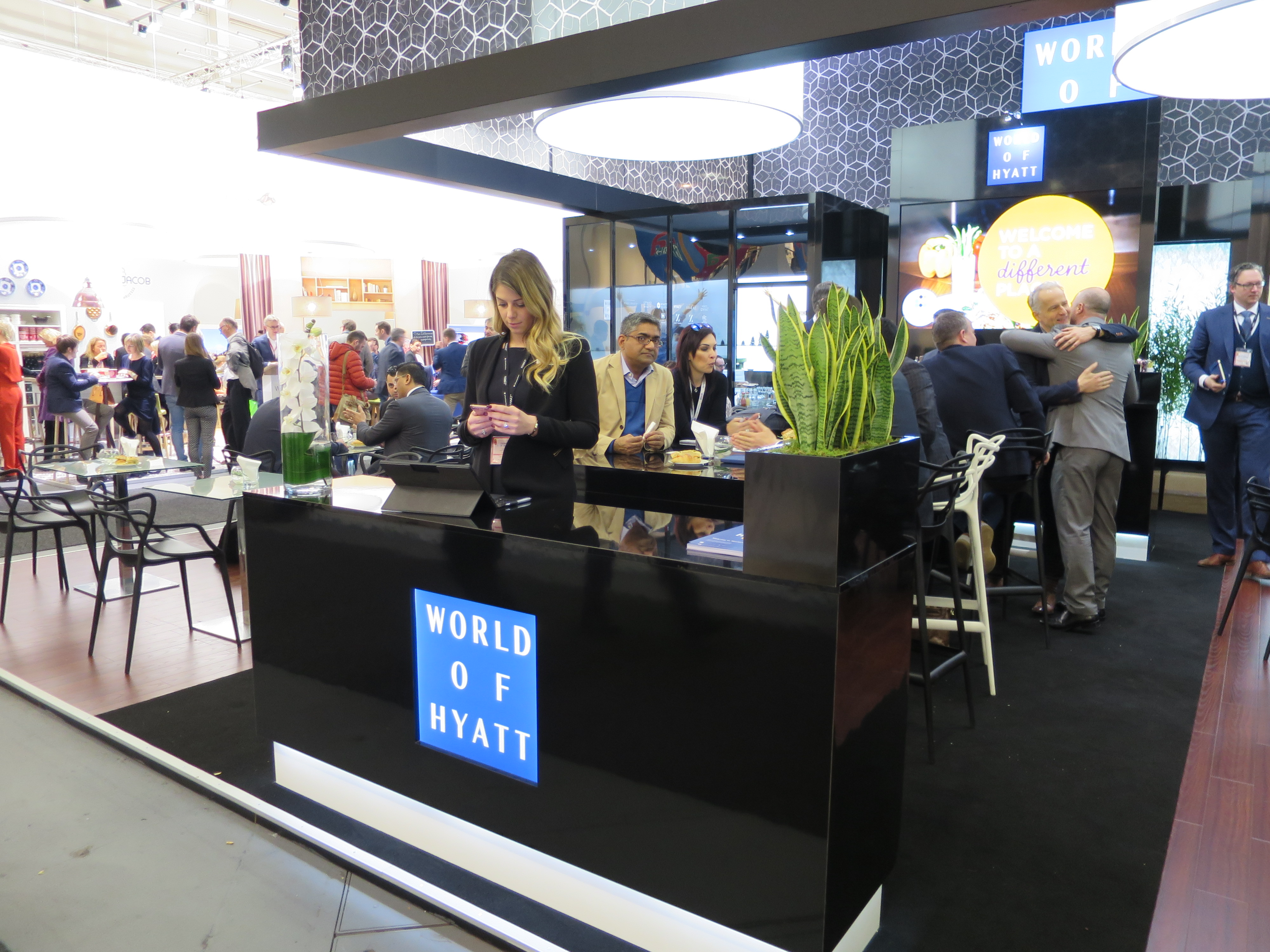 Hyatt.